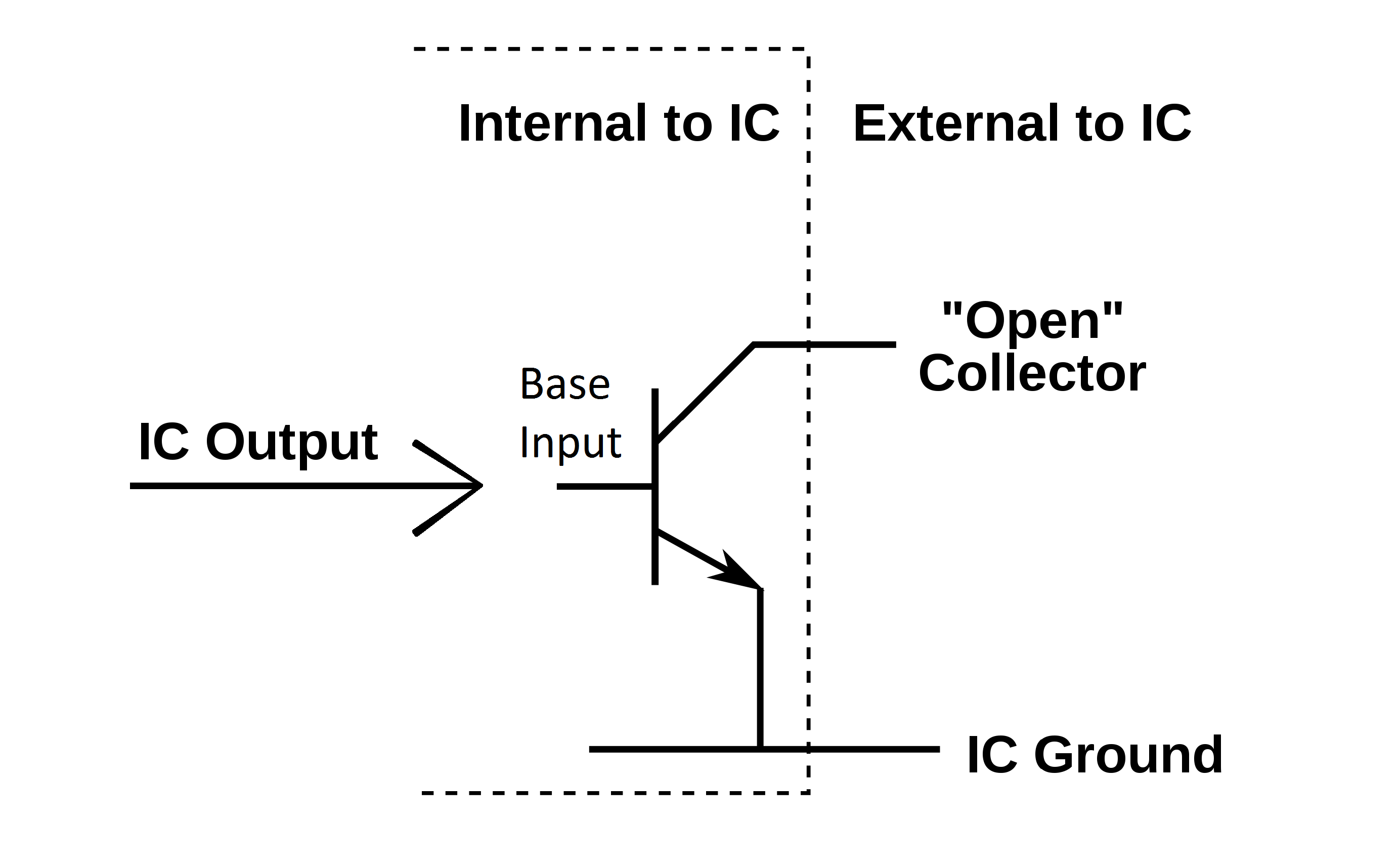 same as for OpencollectorV2